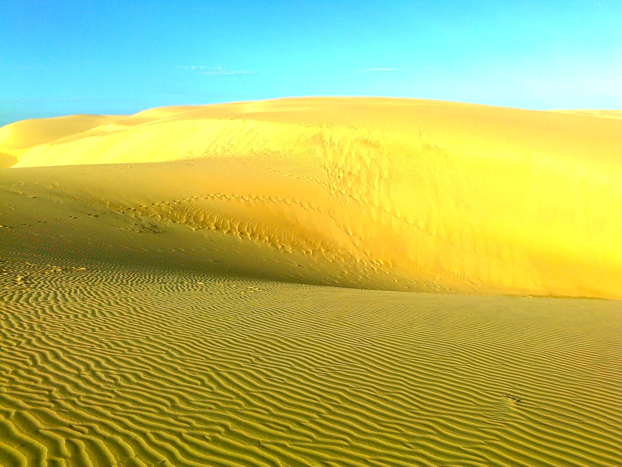 ingles